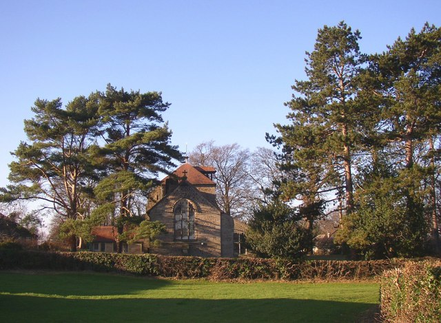 St Luke's parish church, Slyne, Lancashire, seen from the east